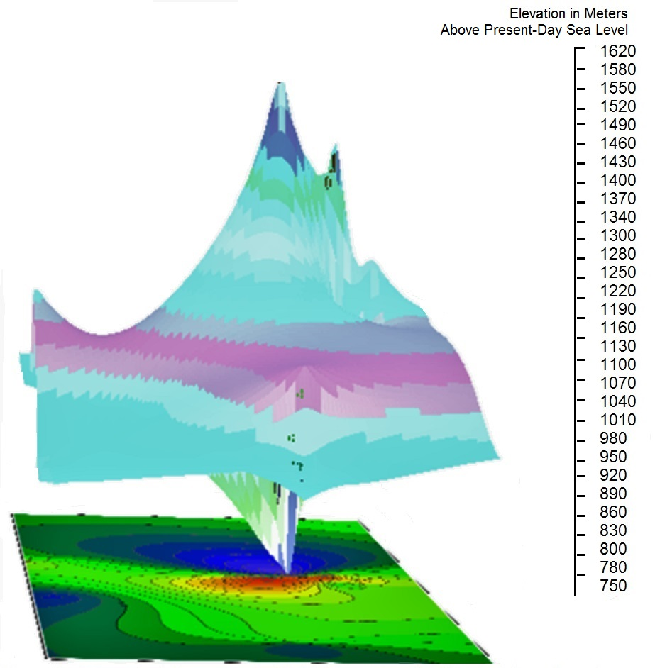 Reconstruction based on a feed-forward neural network model by Woolman (2016) of the possible original appearance of Battle Mountain at 704 Mya, after a lateral stratovolcanic explosion due to gas pressure buildup in rhyolitic lava